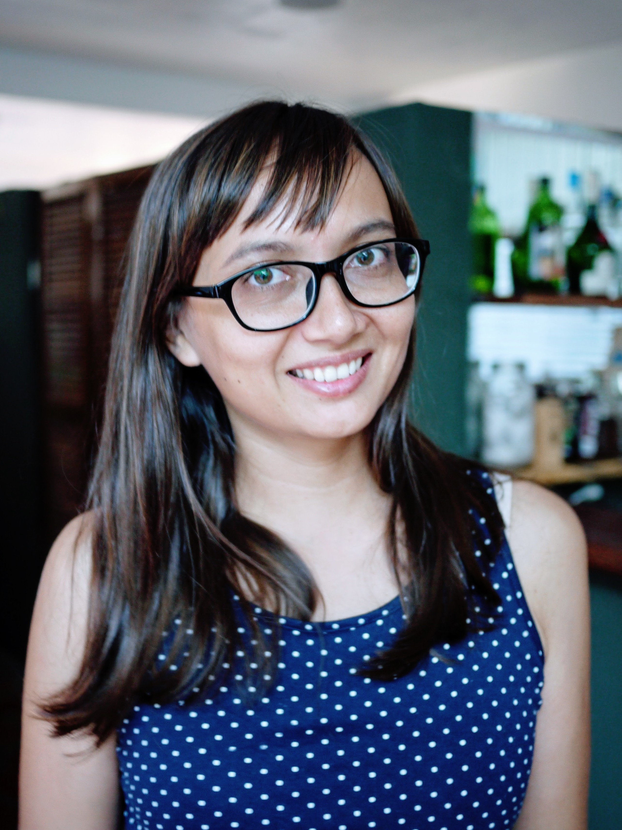 Irina Chakraborty at YK Art House in Phnom Penh (December 2017)